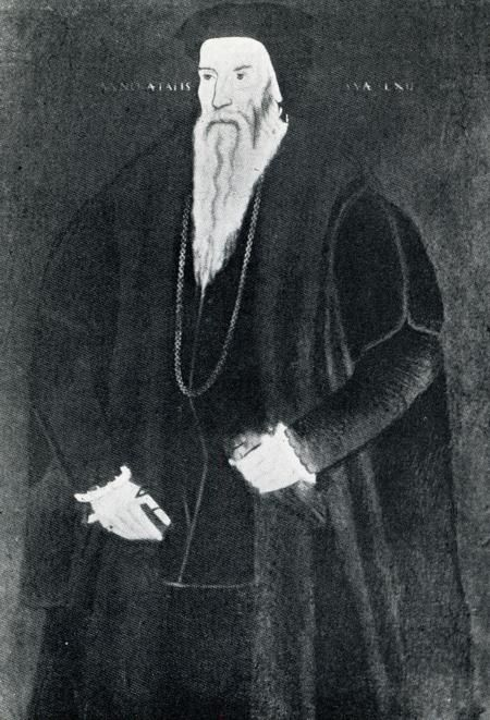 Portrait of Sir John Seymour (1474–1536) at the age of sixty-two. Sir John Seymour of Wulfhall, Wiltshire, was an English soldier and courtier who served both Henry VII and Henry VIII. He was the father of Jane, third consort of Henry VIII and Edward, the Protector Somerset.